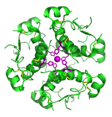 Created by Isaac Yonemoto created with pymol, inkscape, and gimp from NMR structure 1ai0 in the pdb. Ref: Chang, X., Jorgensen, A.M., Bardrum, P., Led, J.J.